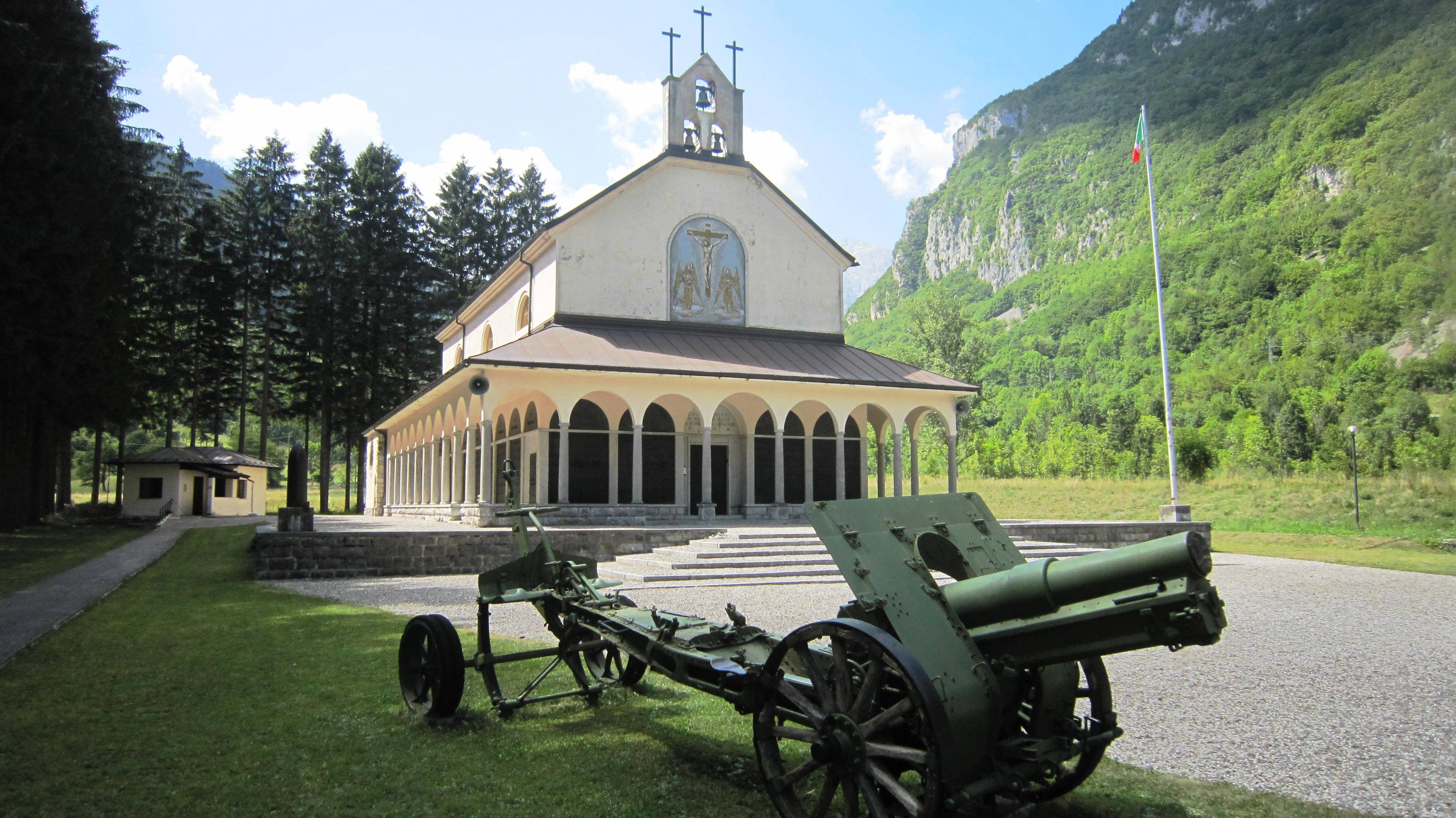 foto tempio ossario timau